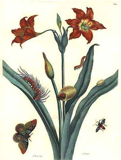 Illuminated Copper engraving from Metamorphosis insectorum Surinamensium, Plate XXII.